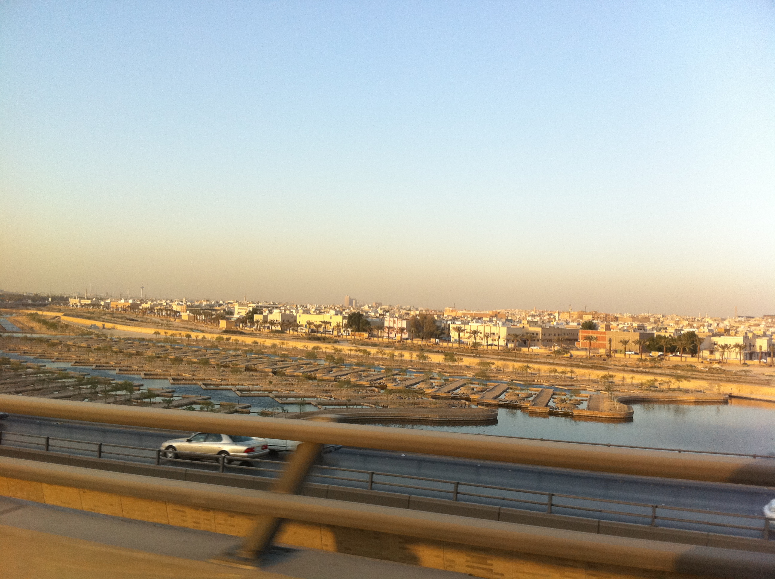 This is a view of the Wadi Hanifa in Riyadh on the King Fahd Road, driving northbound.